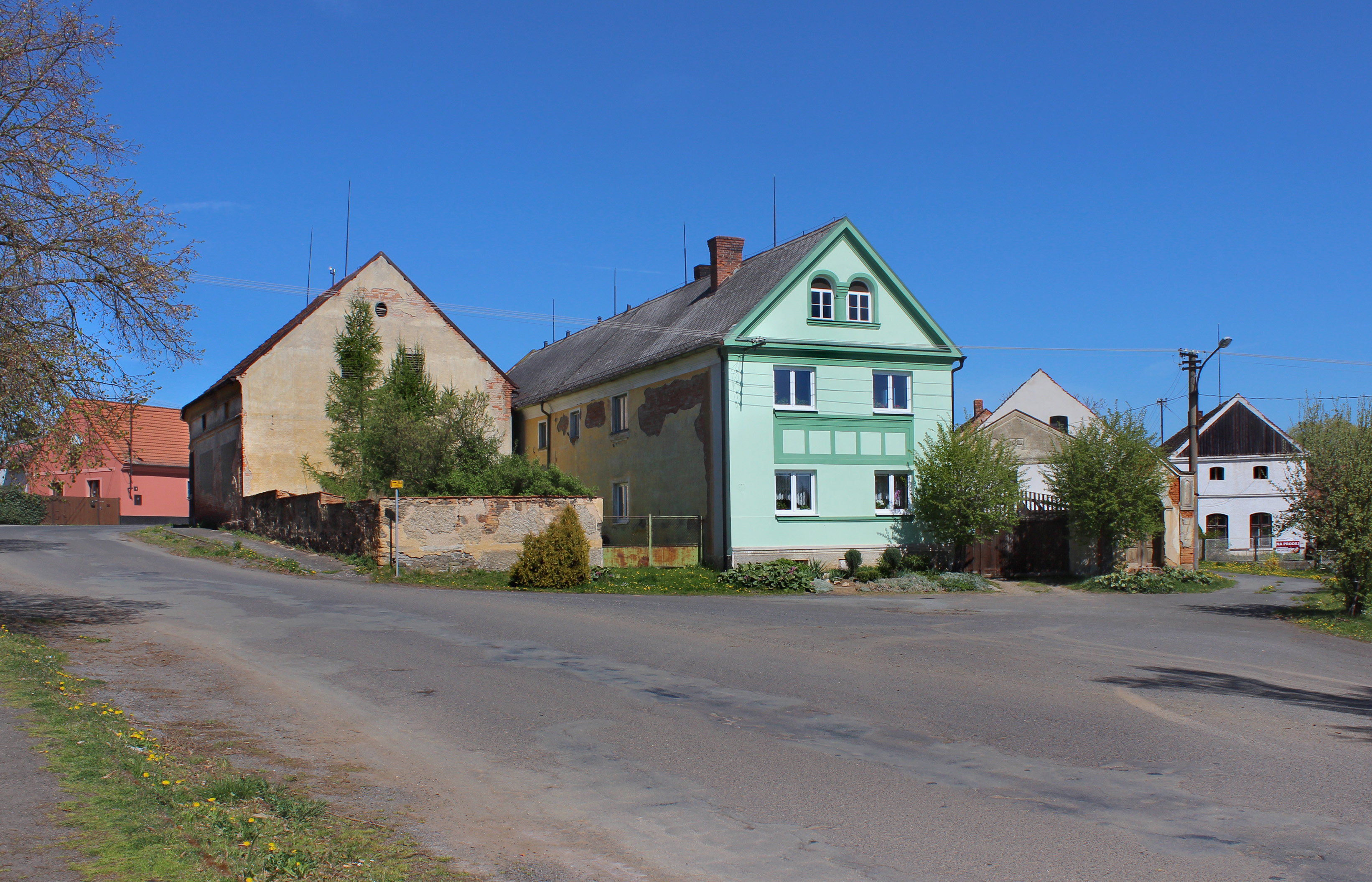 Common in Kšice village, Czech Republic